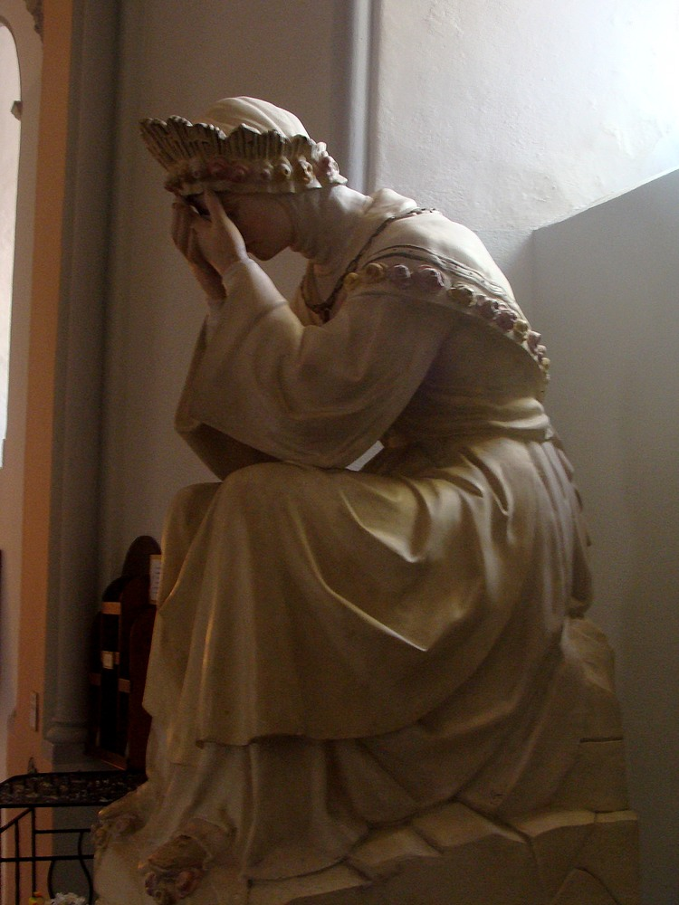 Statue of Our Lady of La Salette crying, in the church of Corps, Isère, France (near to La Salette village)